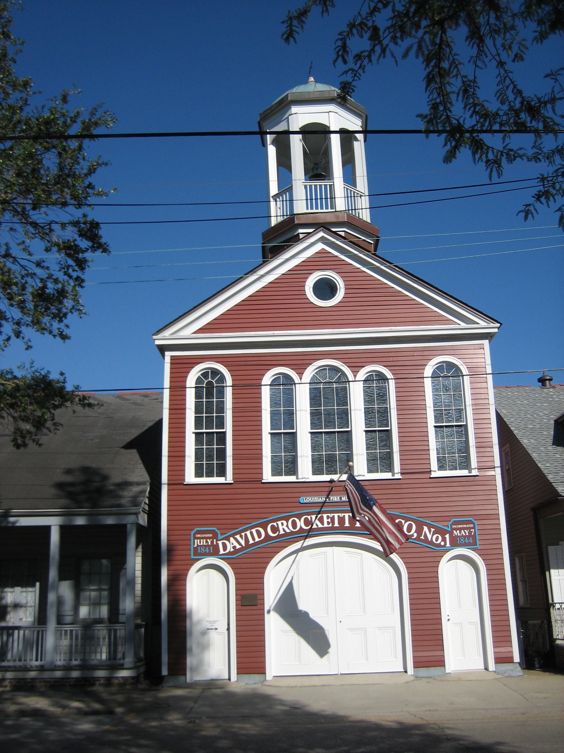 Summary "David Crockett #1" old volunteer Fire Station, Gretna, Louisiana